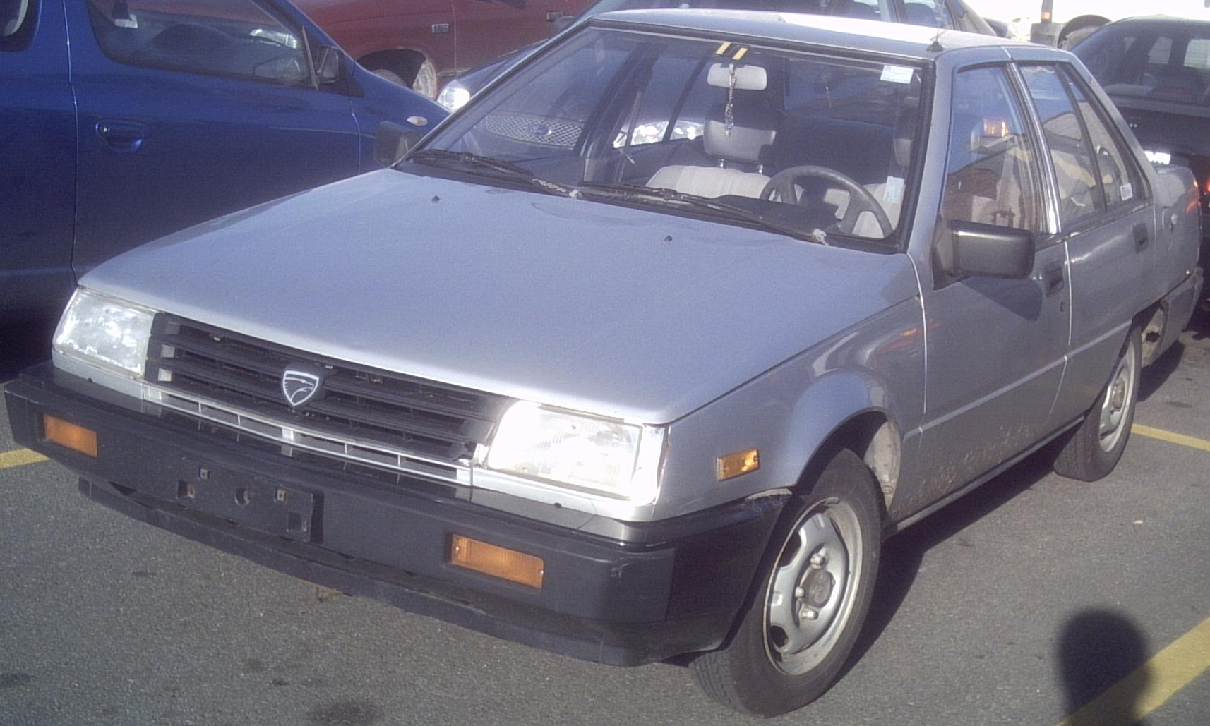 1988-1991 Eagle Vista photographed in Montreal, Quebec, Canada.